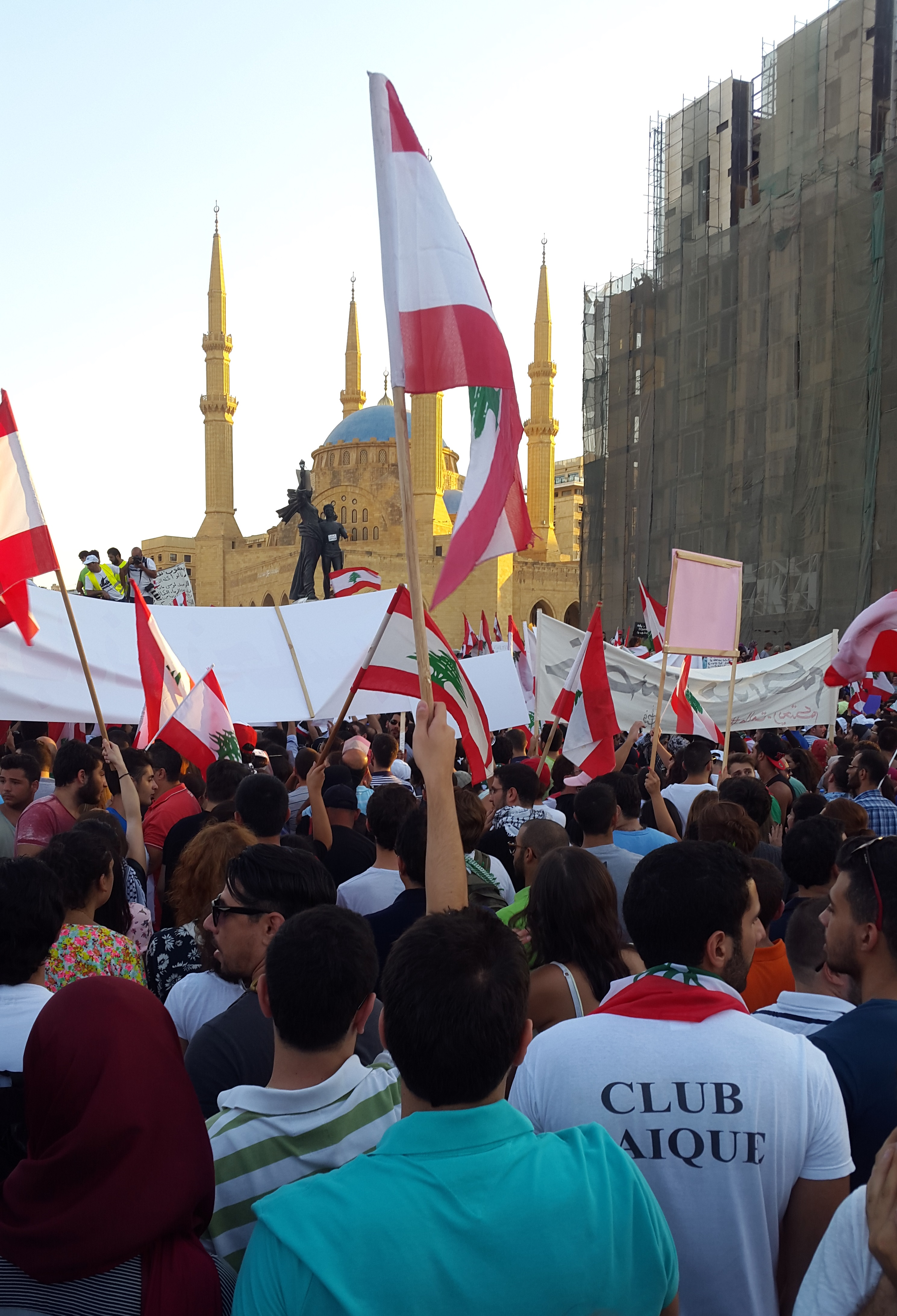 Lebanese Protesters in Downtown Beirut, Martyr Square, on the 29th of August 2015. The picture in question was taken during a large turnout (estimated between 100,000 and 250,000 individuals) of Lebanese protesters that assembled in Martyr Square, Beirut on the 29th of August, 2015. While the goals of individual protesters varied, there was a unanimous expression of acrimony directed at the Lebanese Government's inability to provide basic needs for its population, with such slogans as "yuskot yuskot hokm el azaar" (Roughly translated as "May the reign of the corrupt end") being chanted repeatedly by those present. Relevant Article: "2015 Lebanese protests" Picture uploaded by the individual who took it